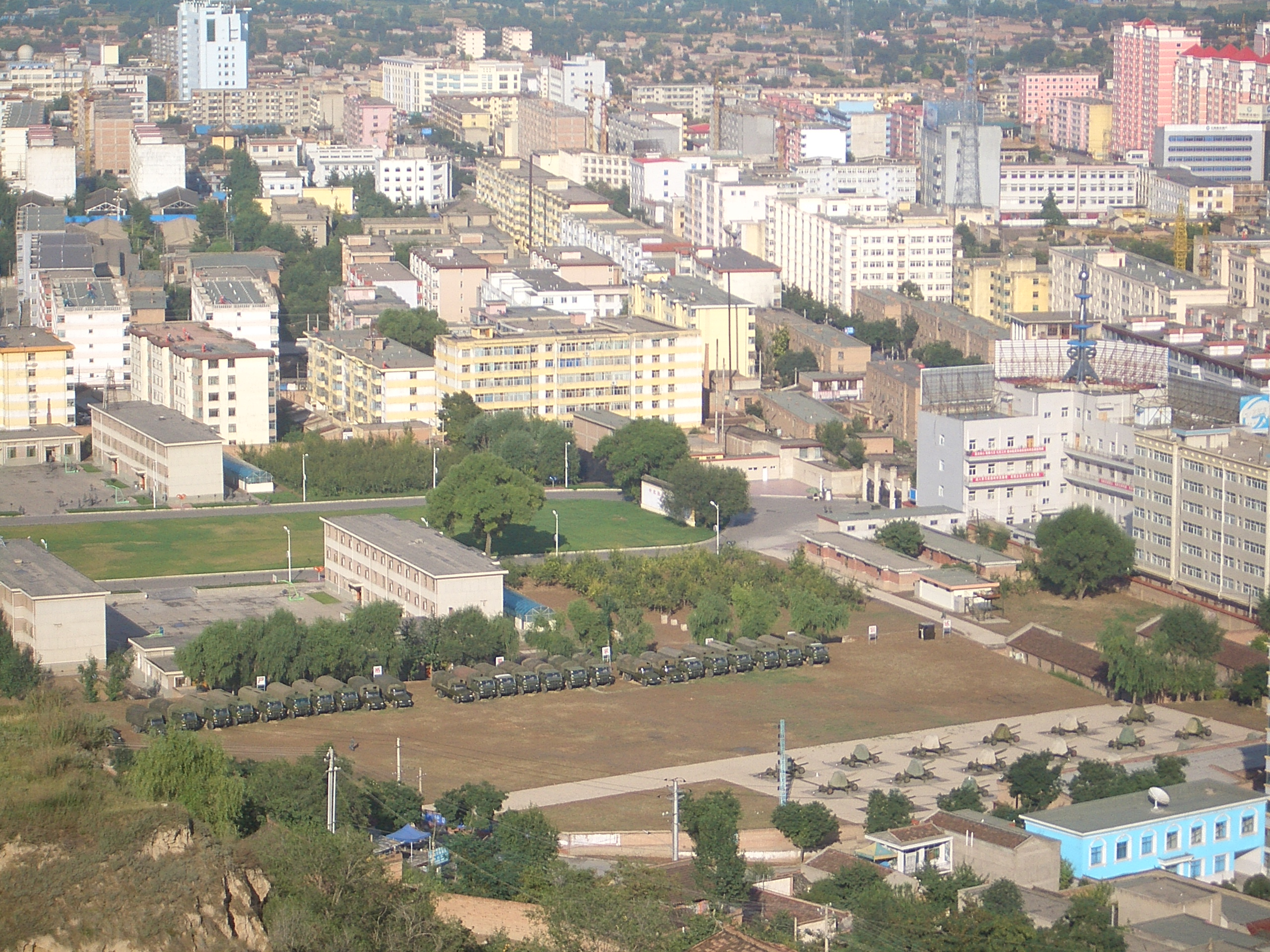 Partial view of Linxia City, looking SE from the loess plateaus escarpment north of town (near the Wanshou Guan pagoda). Note the walled military garrison faiclity.